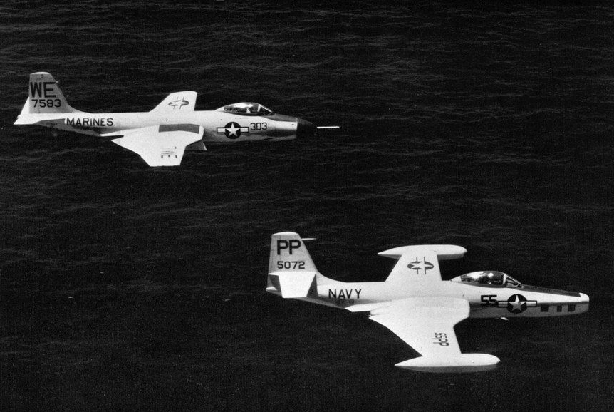 A U.S. Navy McDonnell F2H-2P Banshee (BuNo 125072) from Photographic Reconnaissance Squadron VFP-61 Det.I "Eyes of the Fleet" and an F2H-4 (BuNo 127583) from Marine All-Weather Fighter Squadron VMF(AW)-214 "Black Sheep" in flight. Both squadrons were assigned to Air Task Group 2 (ATG-2) aboard the aircraft carrier USS Hancock (CVA-19) for a deployment to the Western Pacific from 6 April to 18 September 1957.